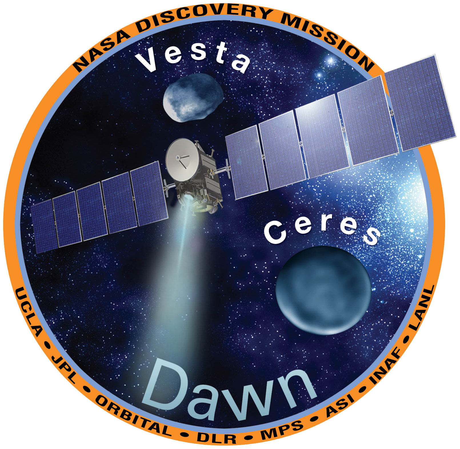 Logo of the Dawn mission. This logo represents the mission of the Dawn spacecraft. During its nearly decade-long mission, Dawn will study the asteroid Vesta and dwarf planet Ceres, celestial bodies believed to have accreted early in the history of the solar system. The mission hopes to unlock some of the mysteries of planetary formation, including the building blocks and the processes leading to their state today. The Dawn mission is managed by the Jet Propulsion Laboratory, a division of the California Institute of Technology in Pasadena, Calif., for NASA's Science Mission Directorate in Washington, D.C.